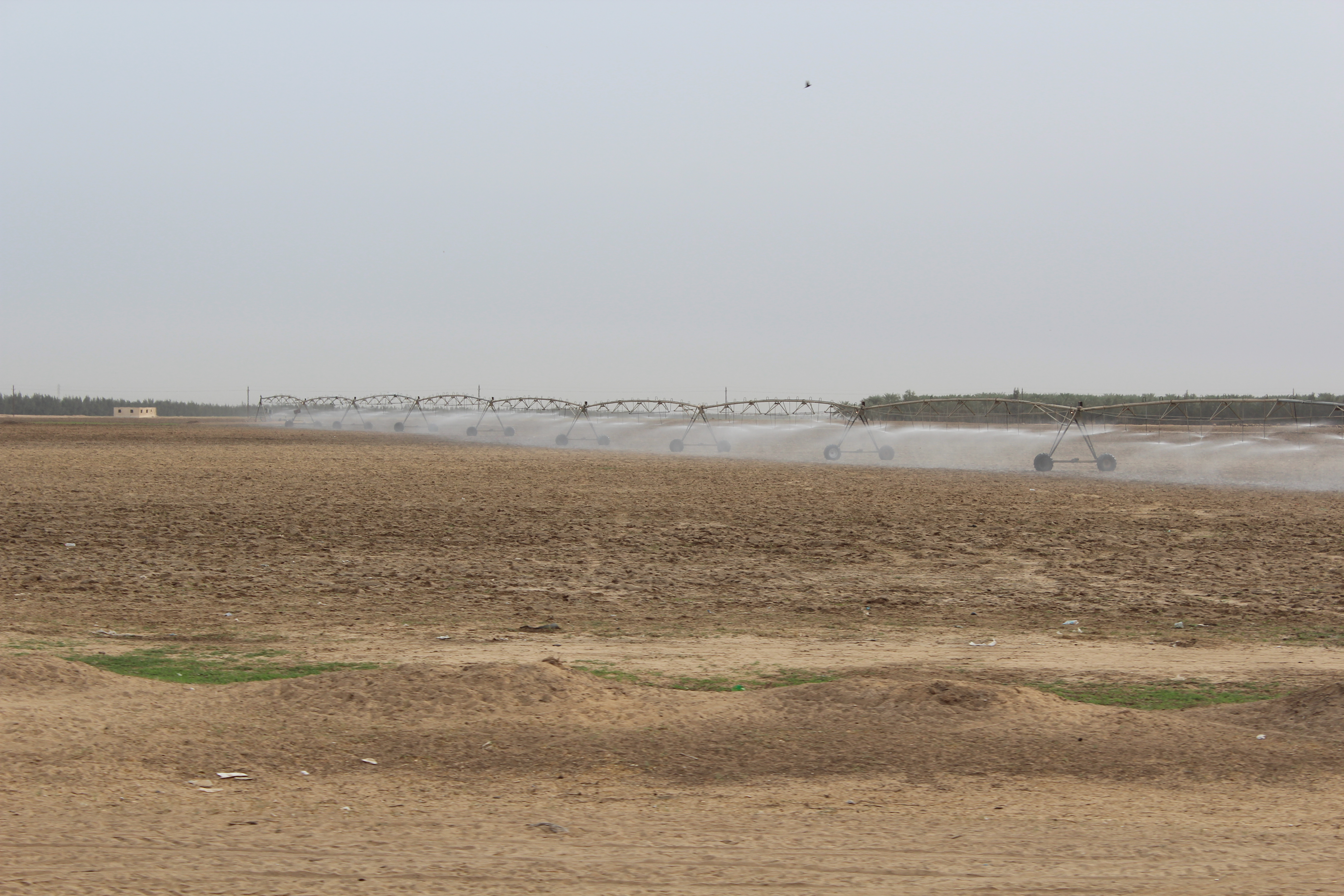 الري المحوري في الصالحية الجديدة، مصر